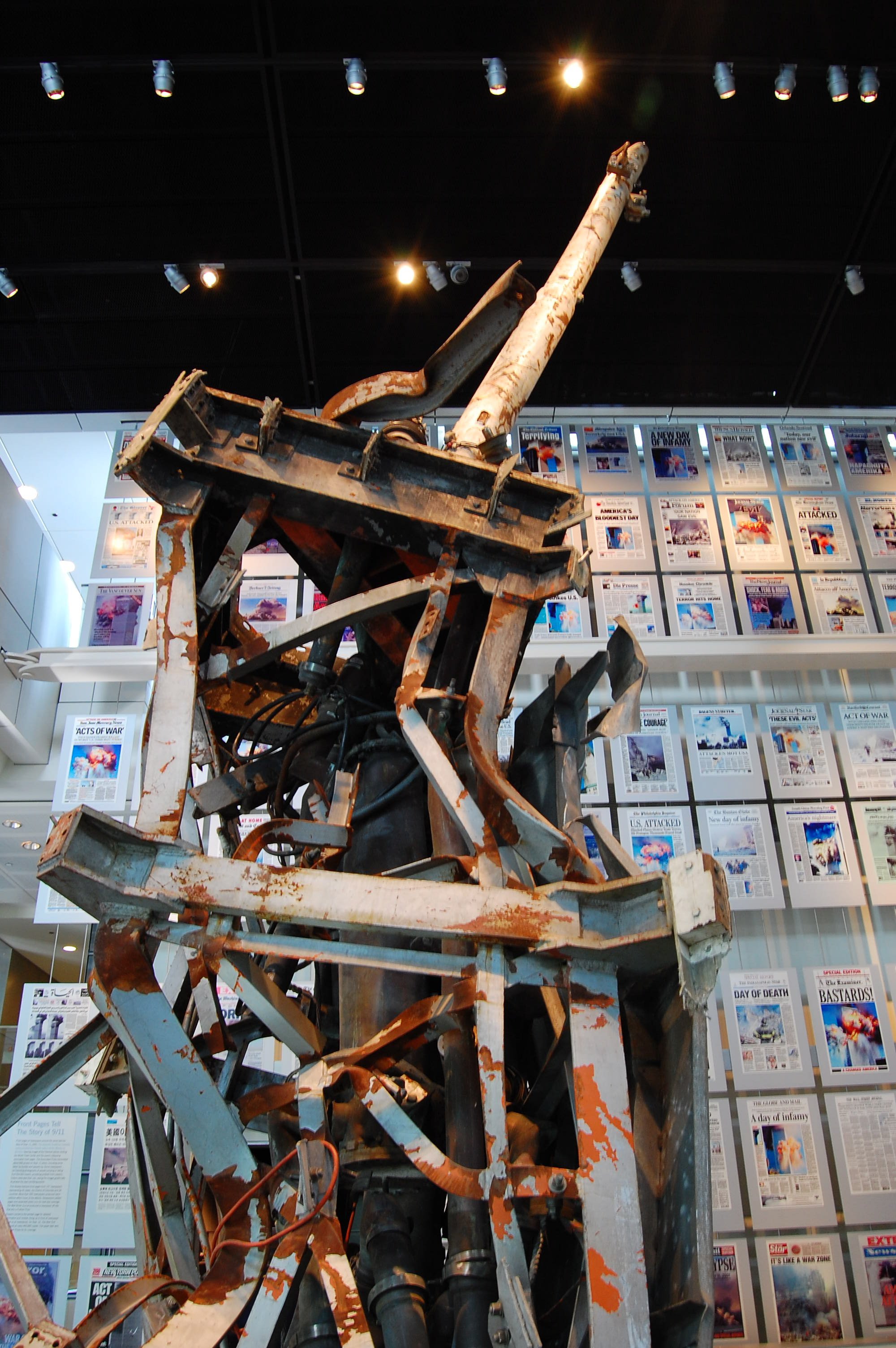 A portion of the antenna mast from the collapsed World Trade Center exhibited at the Newseum in Washington, DC. Visible in the background is a large panel of front pages from newspapers around the world.